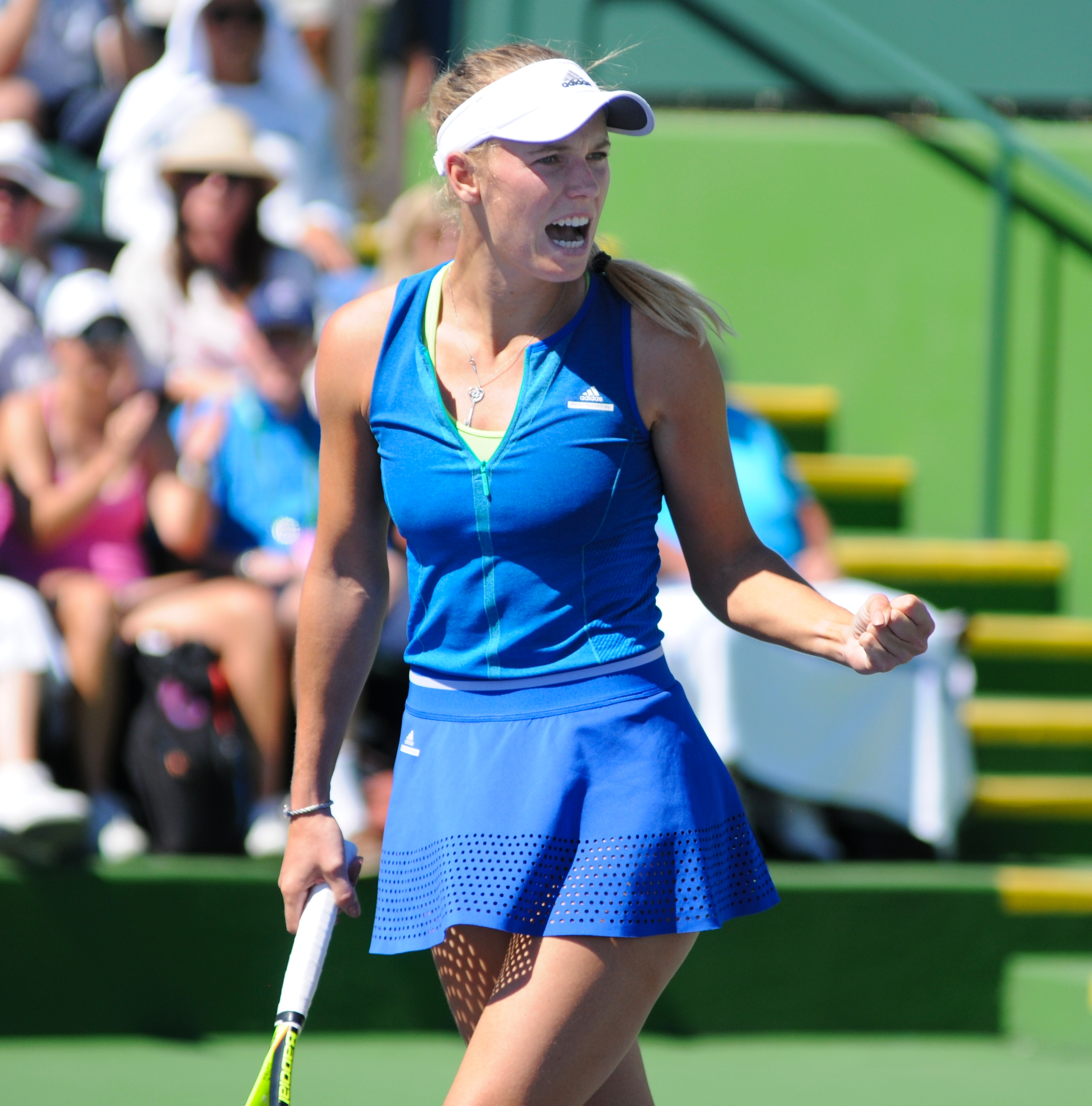 Caroline Wozniacki, 2017 BNP Paribas Open